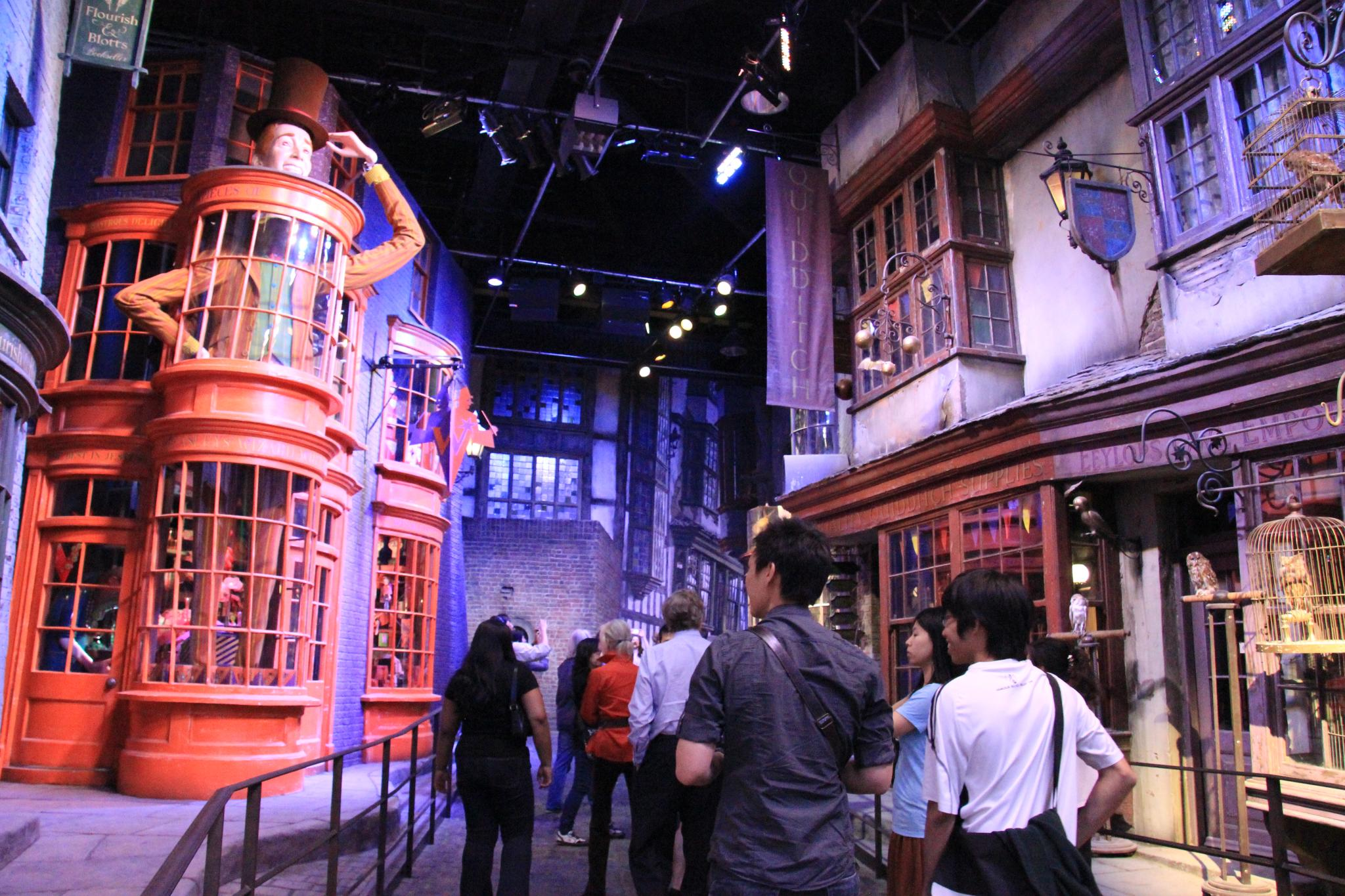 Warner Bros. Studio Tour London: The Making of Harry Potter.